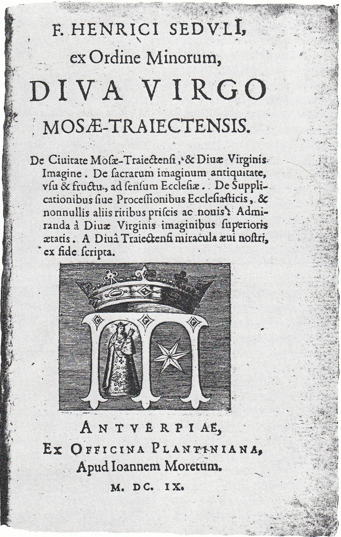 Title page of Diva Virgo Mosæ-Traiectensis, devotional booklet written by Henricus Sedulius about the statue of Our Lady, Star of the Sea in Maastricht, Netherlands. Printed by Joannes Moretus in Antwerp in 1609.